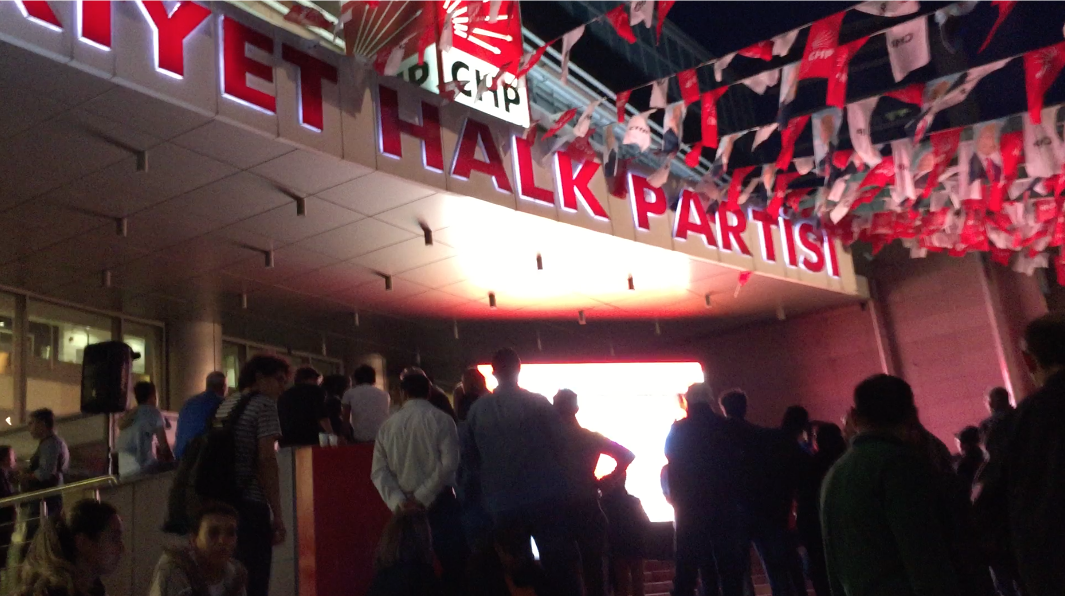 Republican People's Party (CHP) supporters watching the 2015 Turkish general election results live at the CHP headquarters in Ankara.